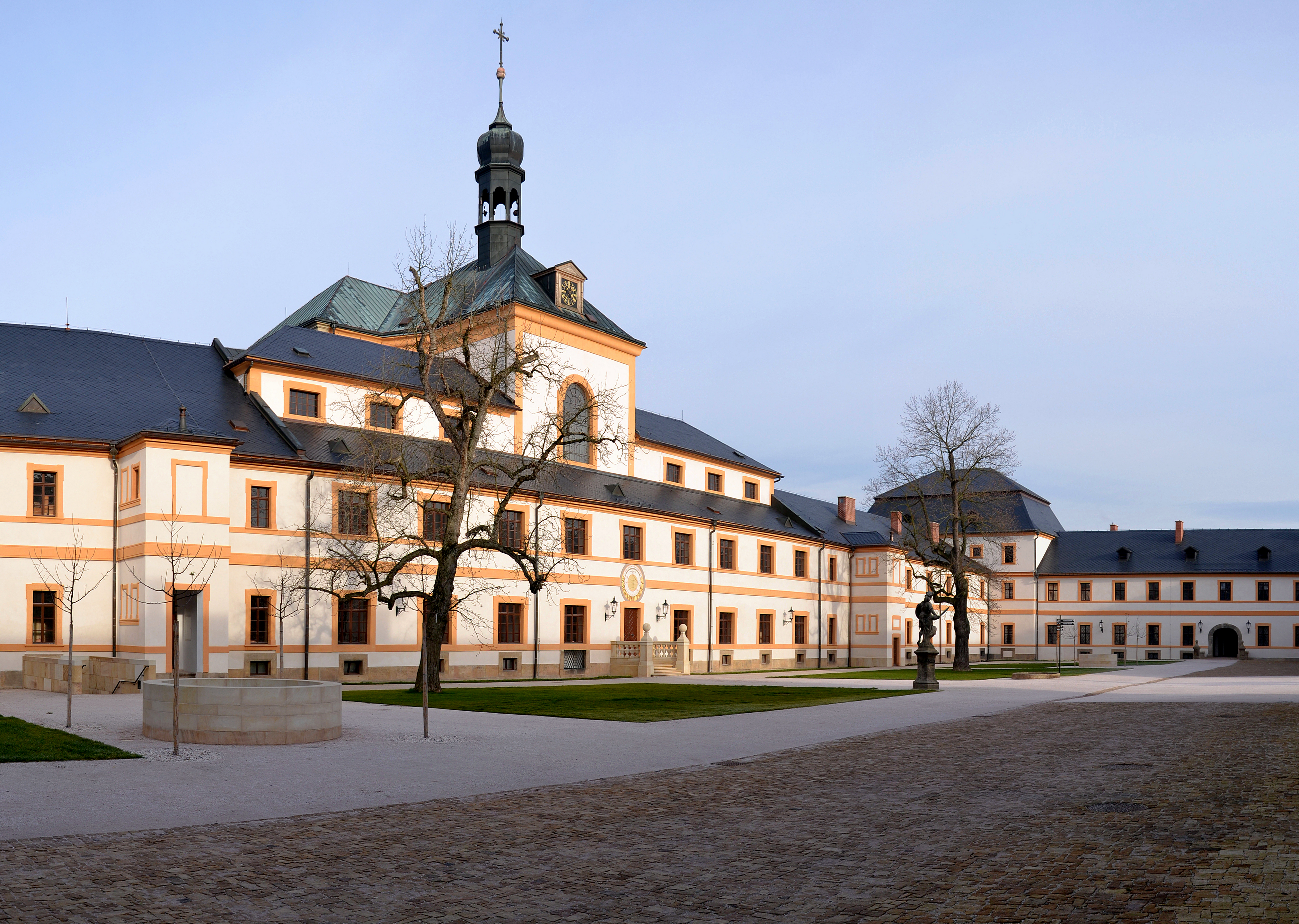 Hospital Kuks (Kukus), Czech Republic